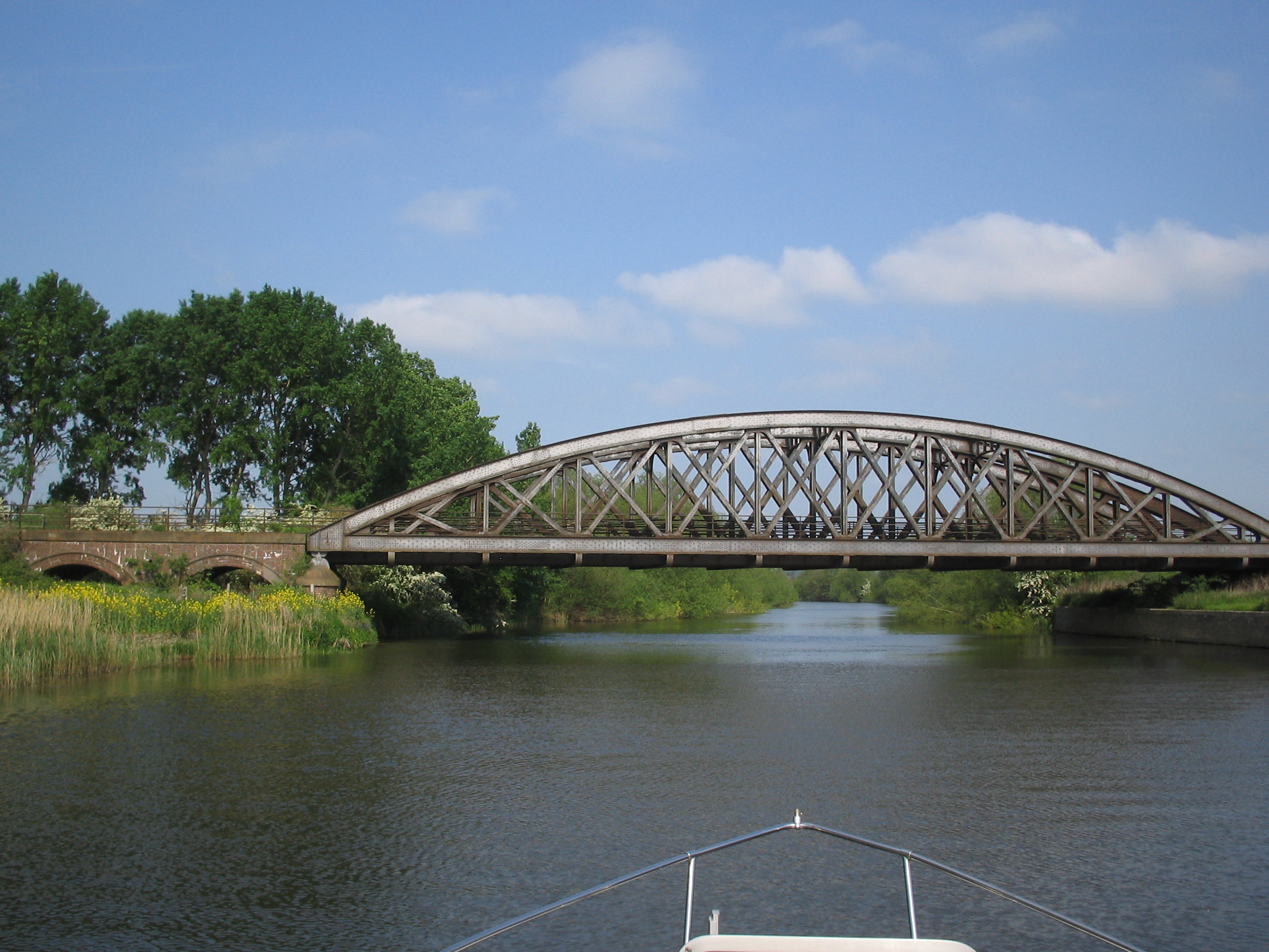 Appleford Railway Bridge carrying the Cherwell Valley Line over the River Thames in Oxfordshire: view looking upstream